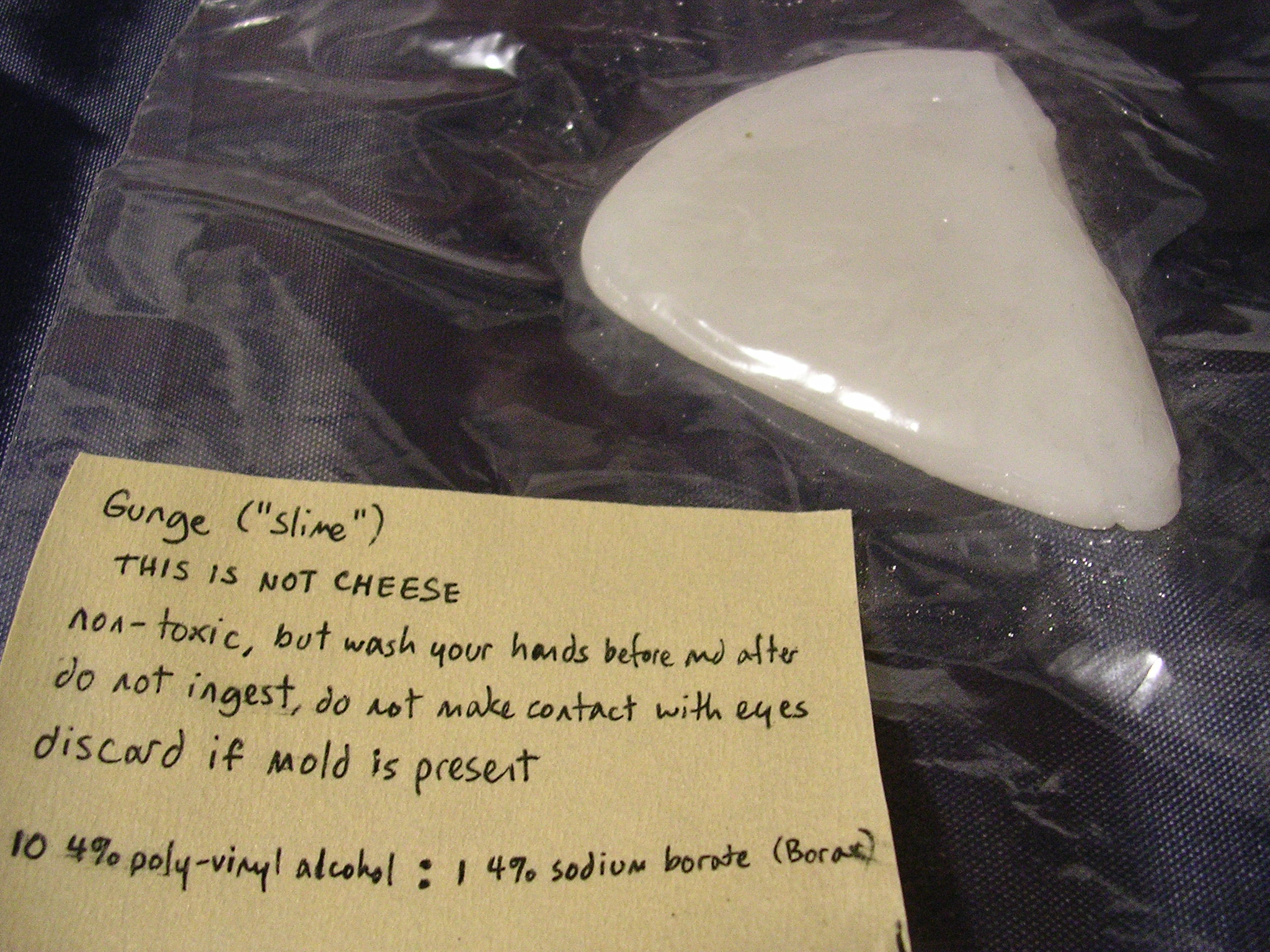 My roommate brought home a sample of some slime he made in his chemistry class, so after playing around with it I decided to ziploc bag, label, and take a picture of it. This sample was originally made of 10 parts of 4% polyvinyl alcohol to 1 part 4% borax. This particular sample was quite dry compared to commercial slime (since it was carried home in a napkin, which absorbed a lot of the moisture), and had a consistency more along the lines of clay.